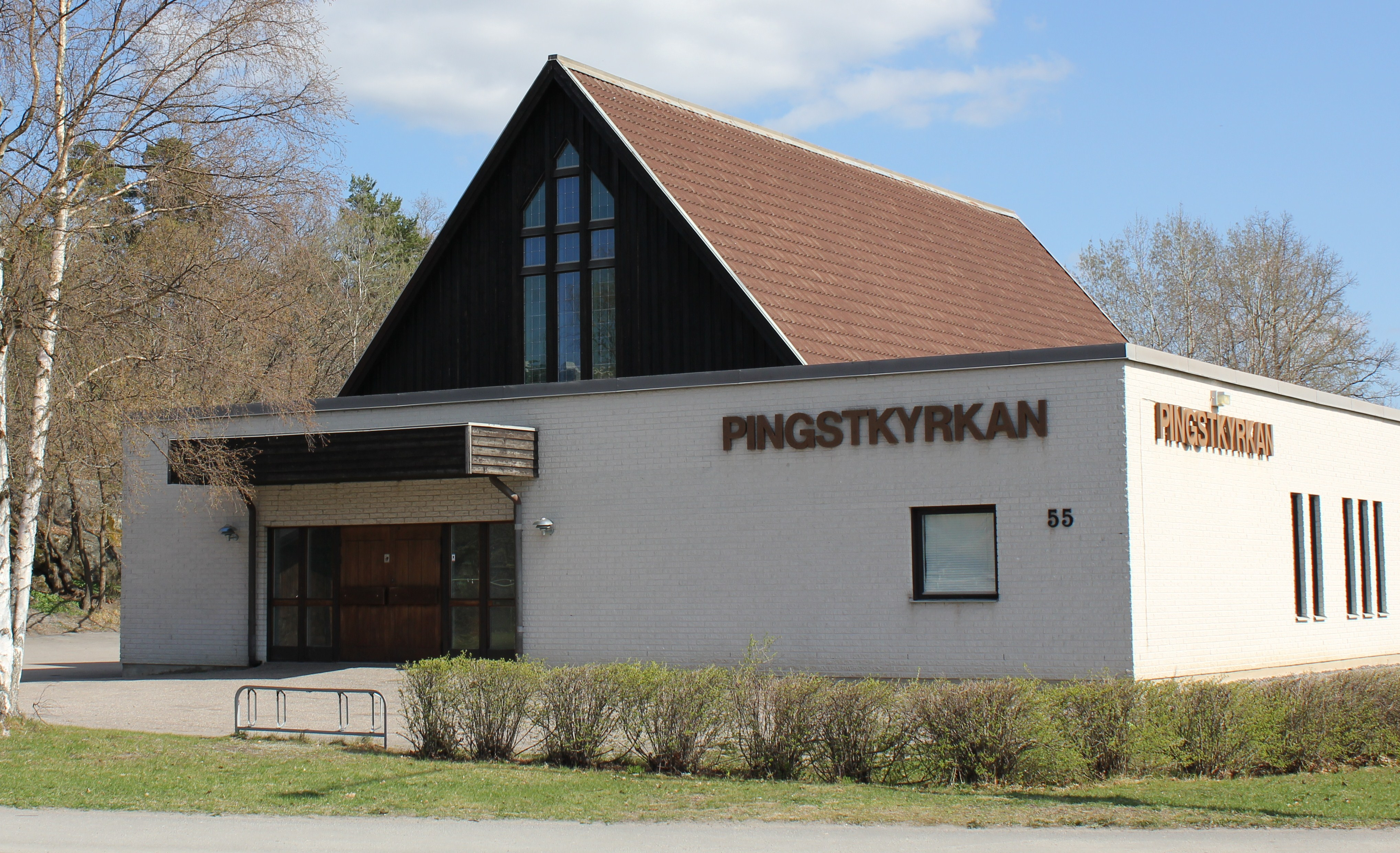 Pingstkyrkan (Pentecostal church) in Bredäng, Stockholm.